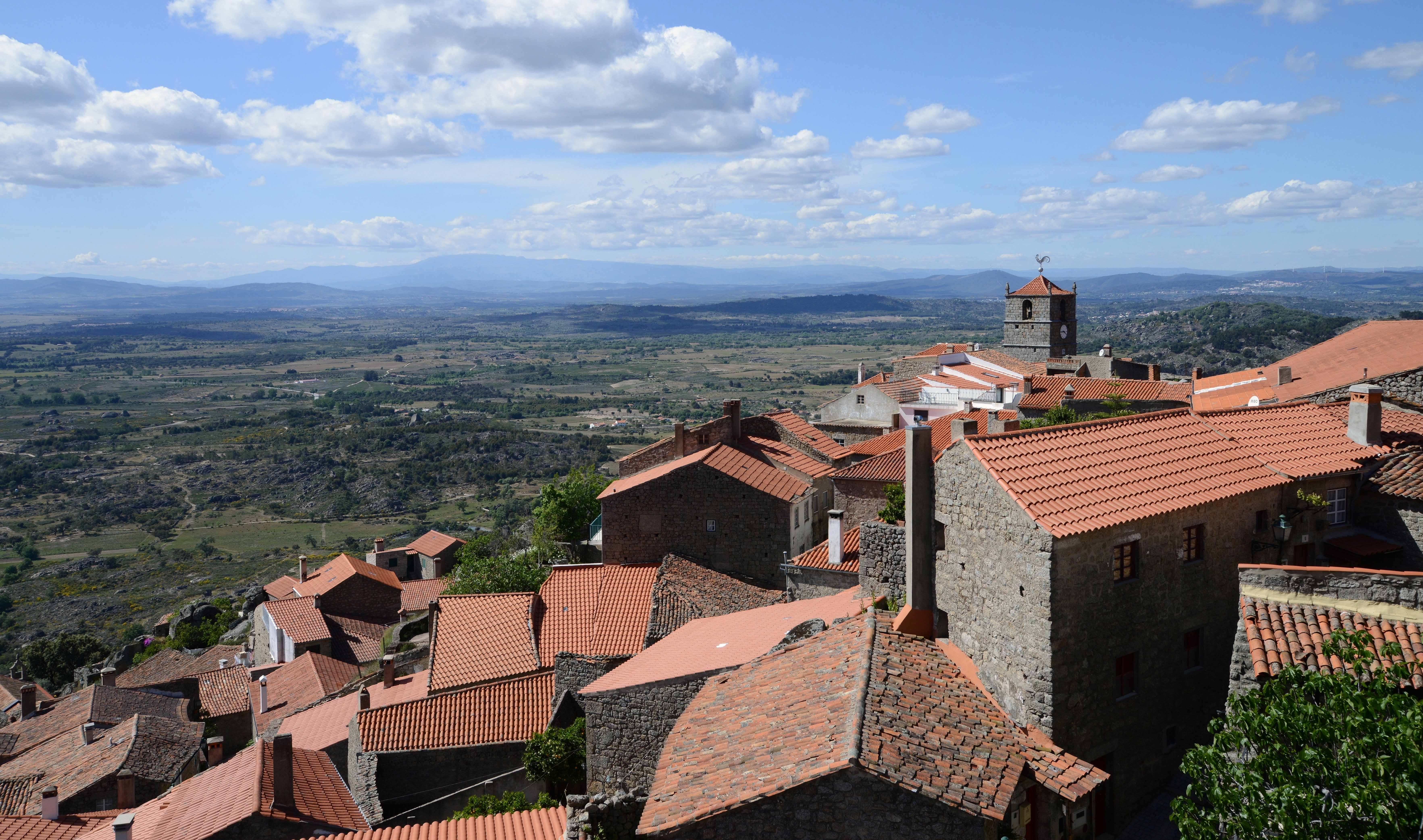 View of the the village of Monsanto, Portugal